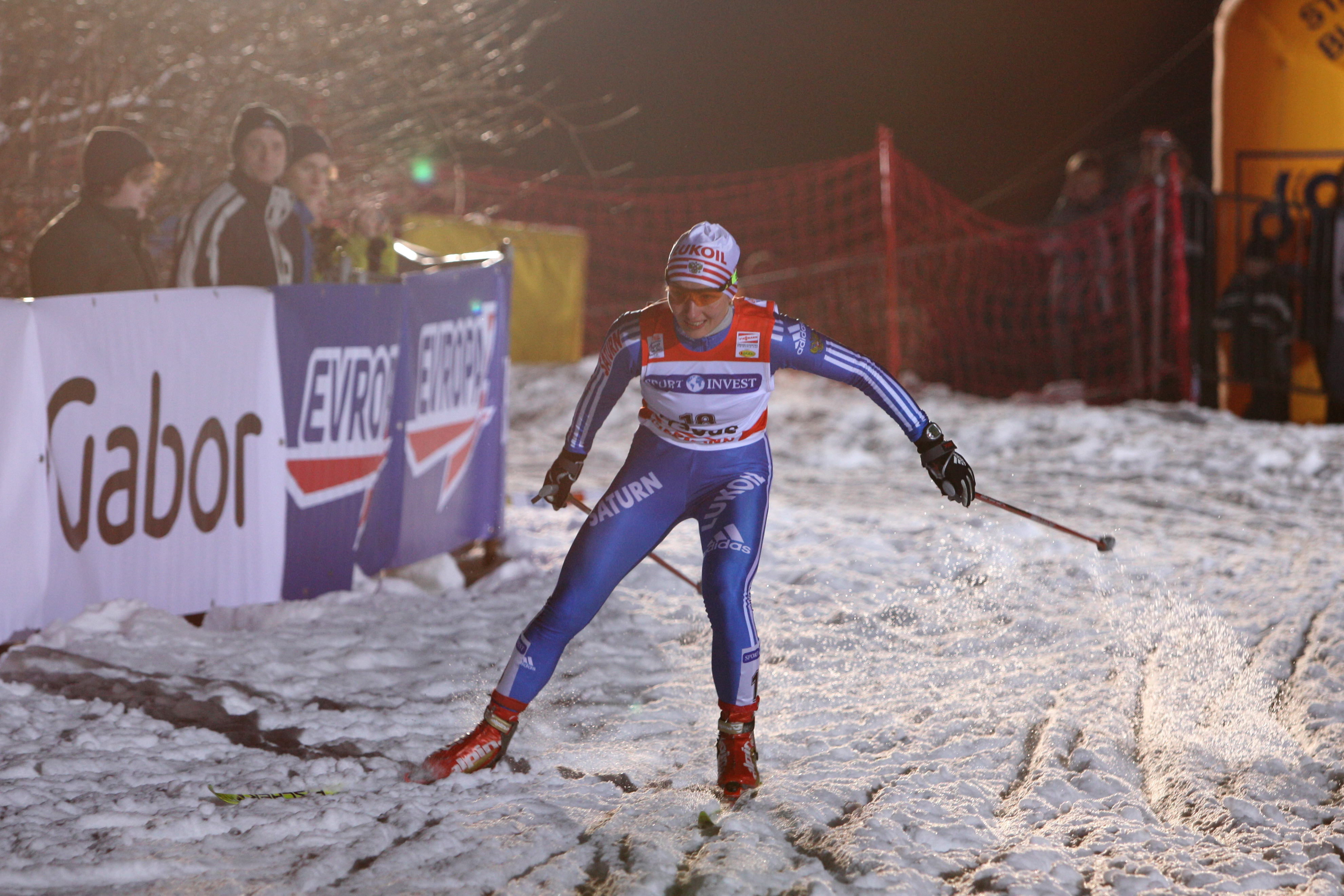 Valentina Novikova competes at Ski Sprint Praha in 2010